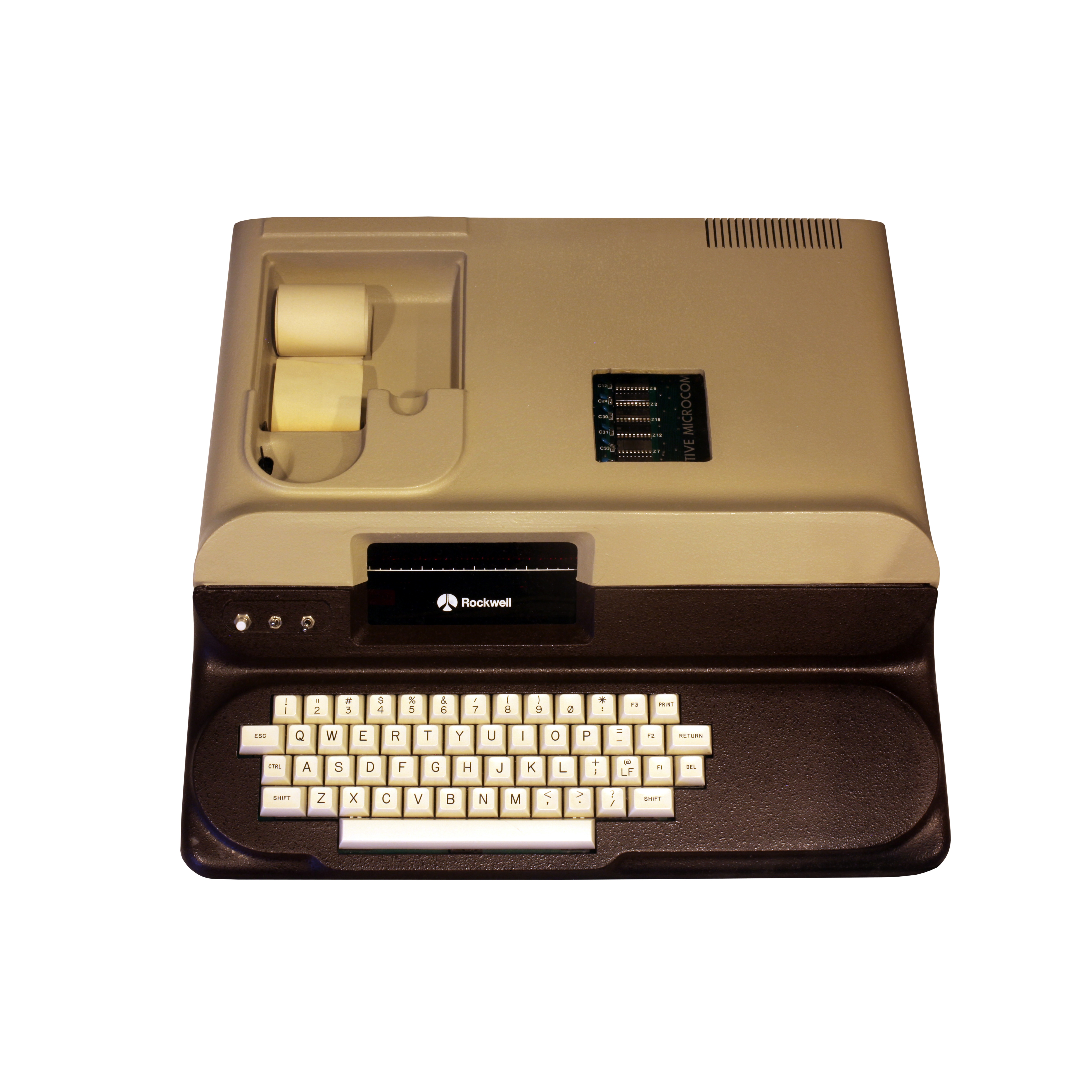 Rockwell AIM-65 computer. On display at the Musée Bolo, EPFL, Lausanne. The making of this document was supported by Wikimedia CH.(Submit your project!) For all the files concerned, please see the category Supported by Wikimedia CH.